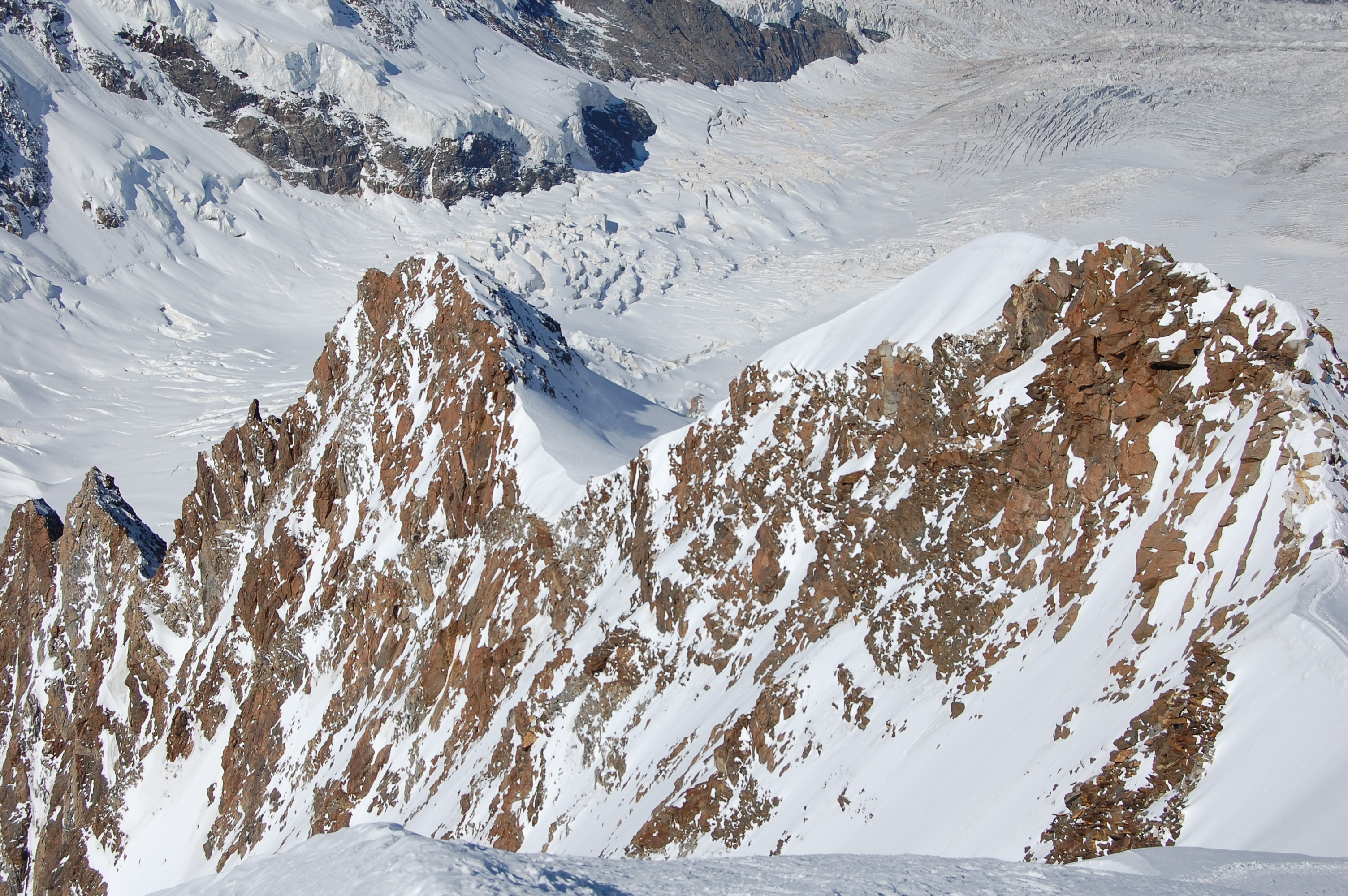 View from Dufourspitze towards the Grenzgletscher